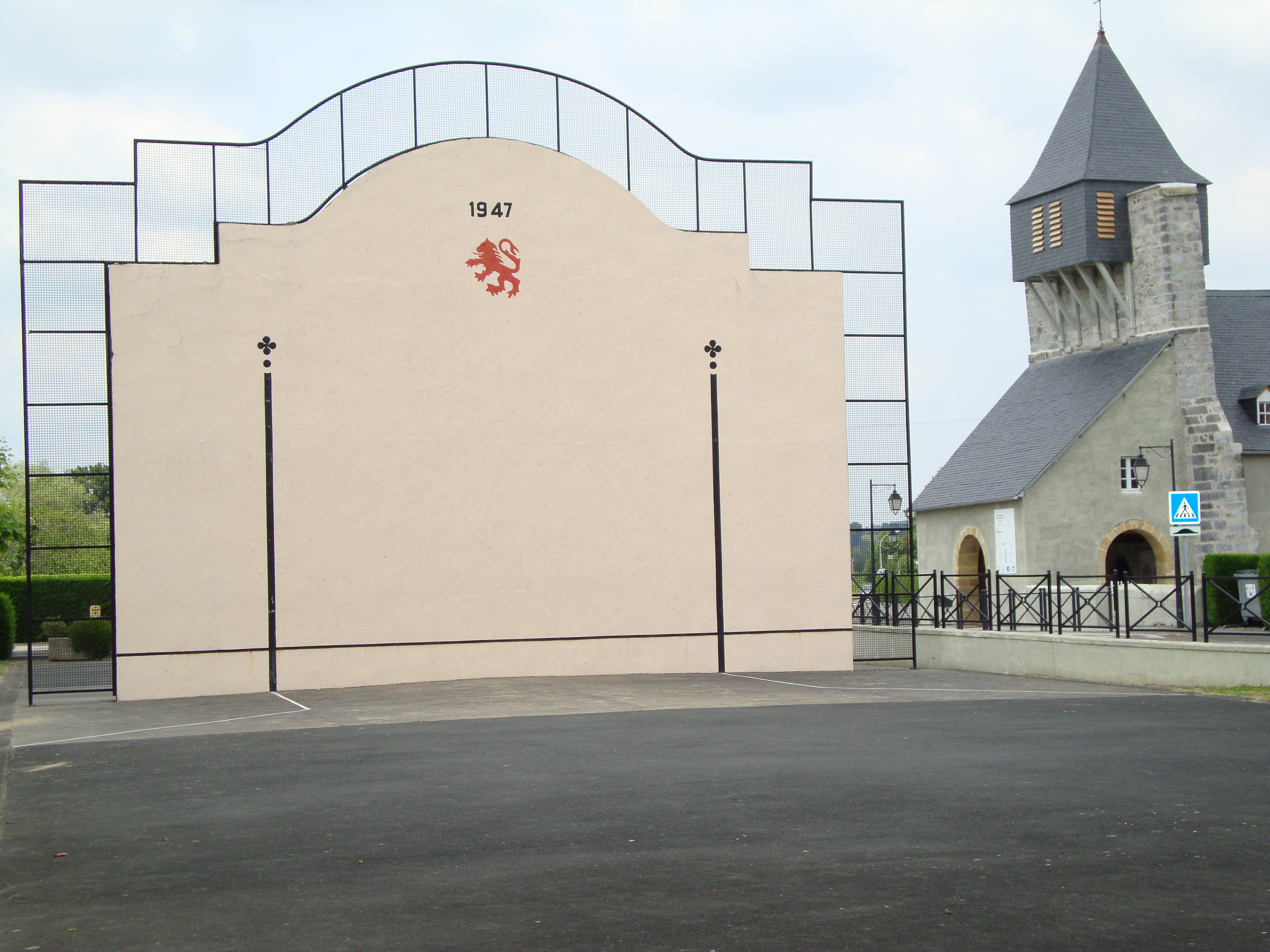 Espès (Espès-Undurein, (Pyr-Atl, Fr) Pelota court and church